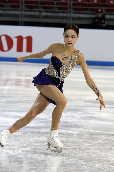 Photos – Junior World Championships 2018 – Ladies (Eunsoo LIM KOR – 5th Place)